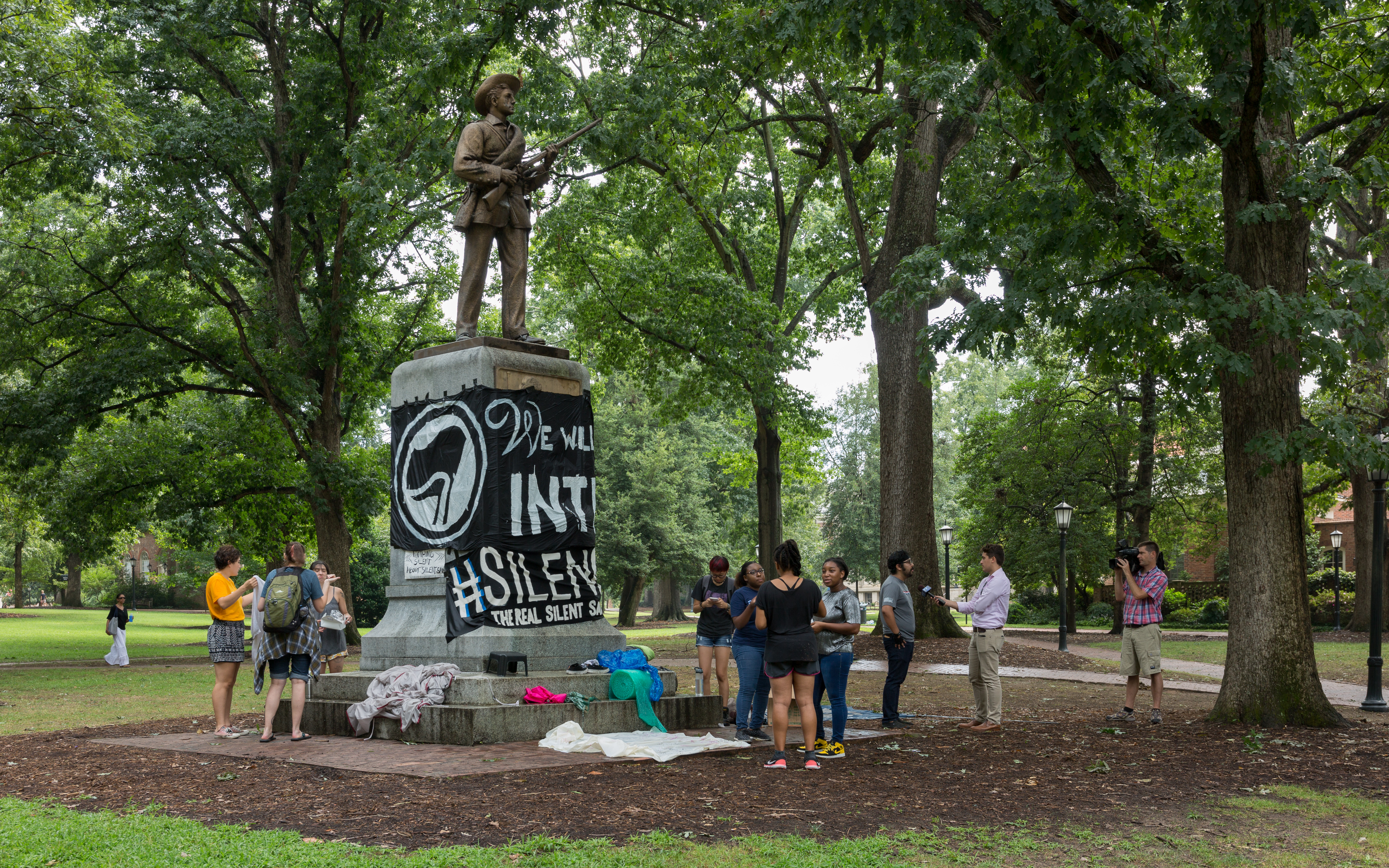 Protests against the statue of Silent Sam on the Campus of the University of North Carolina at Chapel Hill